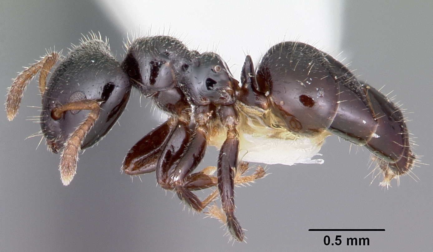 Profile view of ant Aphomomyrmex afer specimen casent0101212.